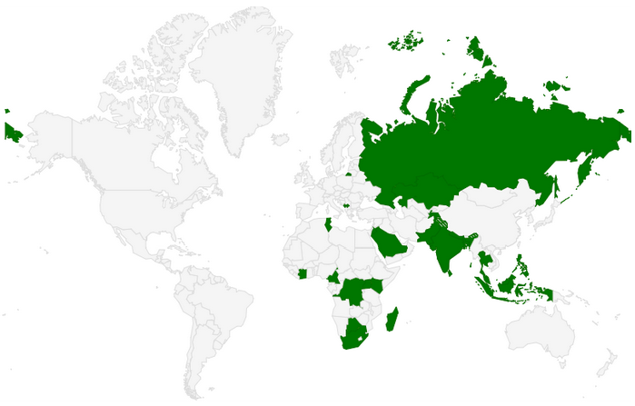 Map of countries where we have Wikipedia Zero partners